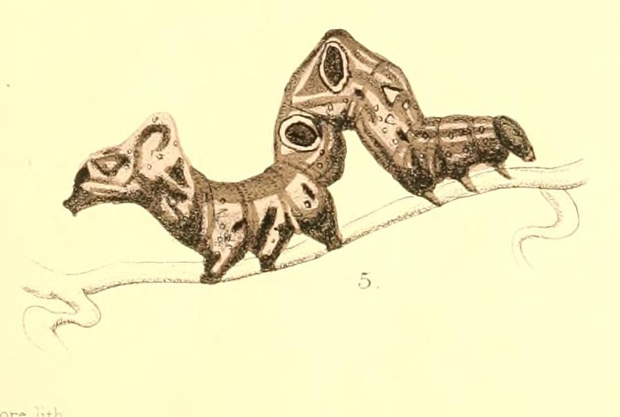 Rhytia cocale larva Moore, Frederic 1880 On the genera and species of the Lepidopterous Subfamily Ophiderinae inhabiting the Indian Region. Zoological Society of London